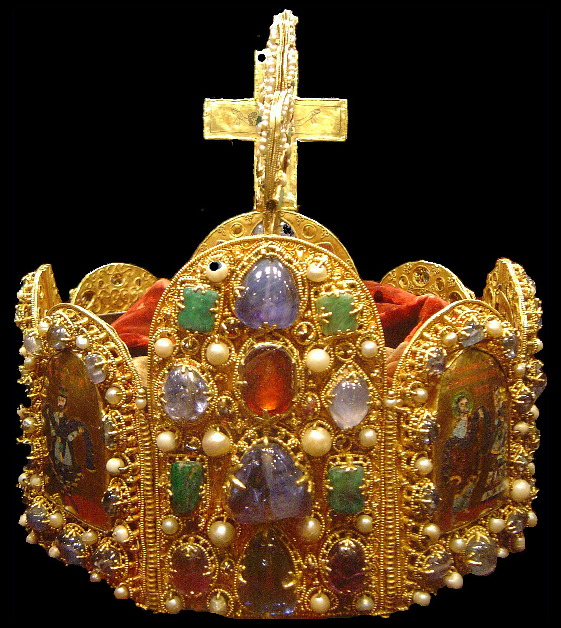 The crown of the Holy Roman Empire in the Vienna Schatzkammer